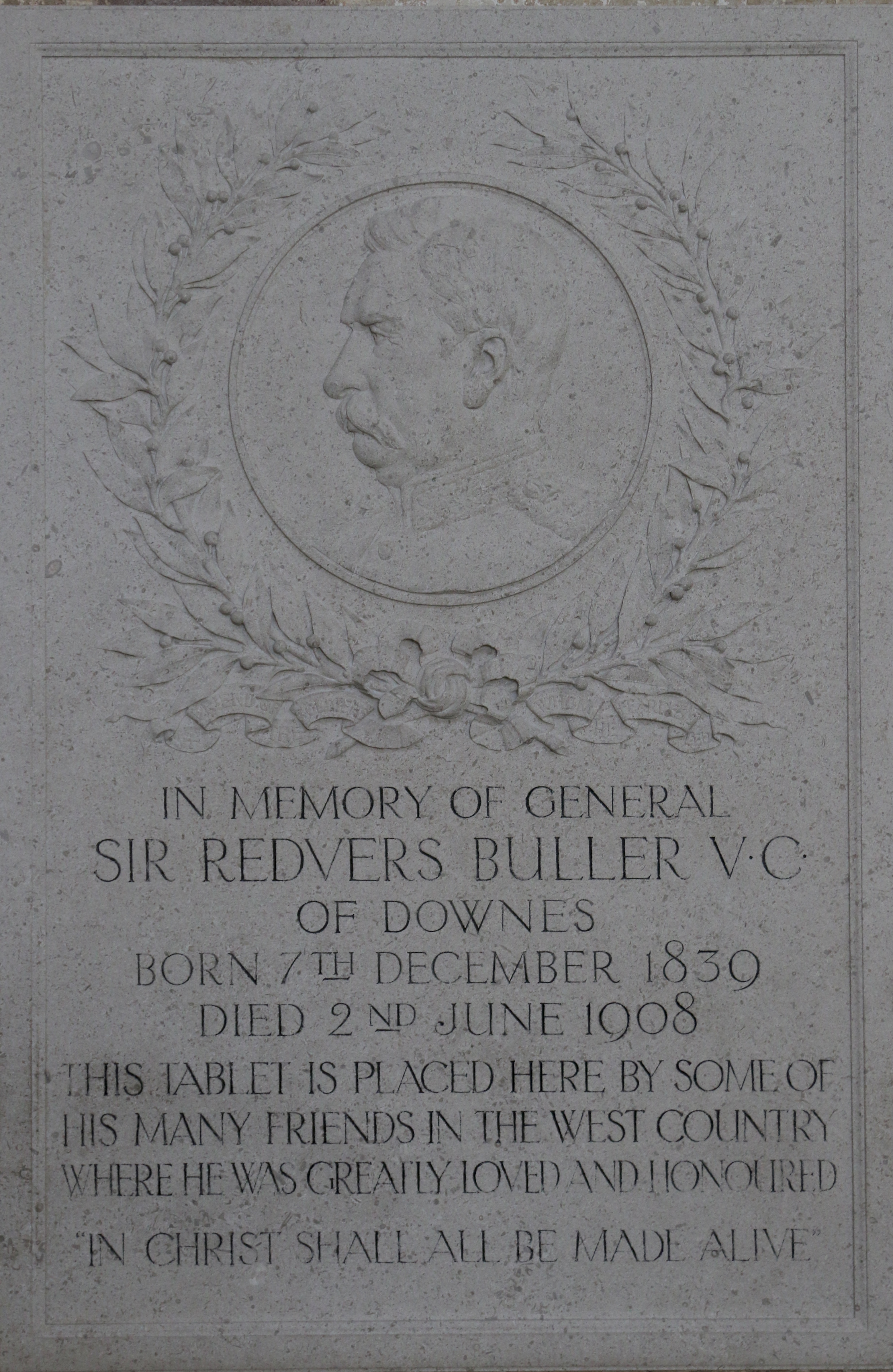 Sir Redvers Buller VC of Downes. Born 7 December 1839 Died 2 June 1908